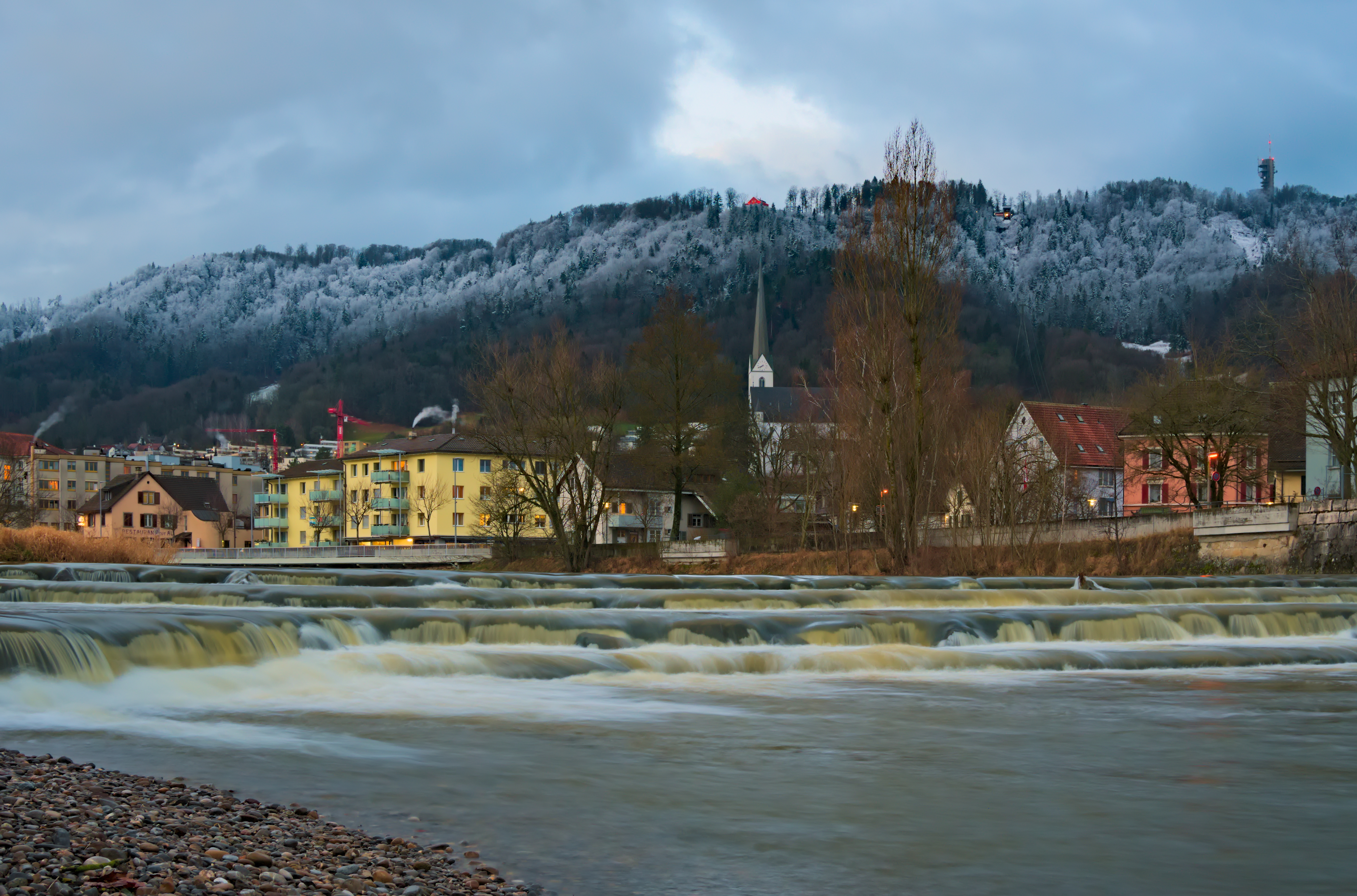 Adliswil seen from the bed of the river Sihl, with Felsenegg in the background.